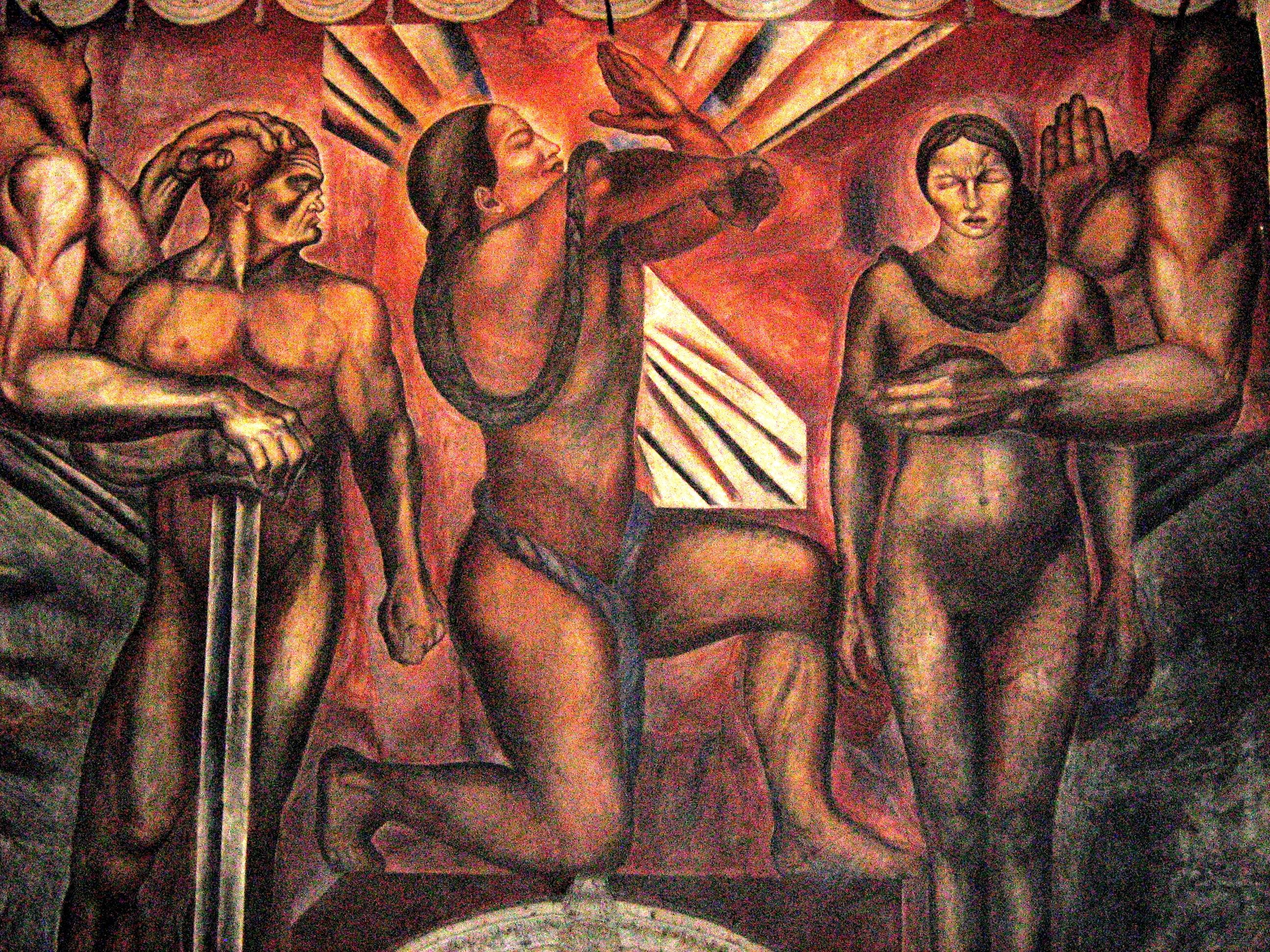 Omnisciencia, 1925, detail of Mural by Orozco at the Casa de los Azulejos. (Samborn's, Mexico, D. F.)